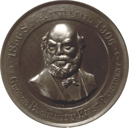 George Engelmann Medal: "1856-1906 Semi-Centennial George Engelmann First President"